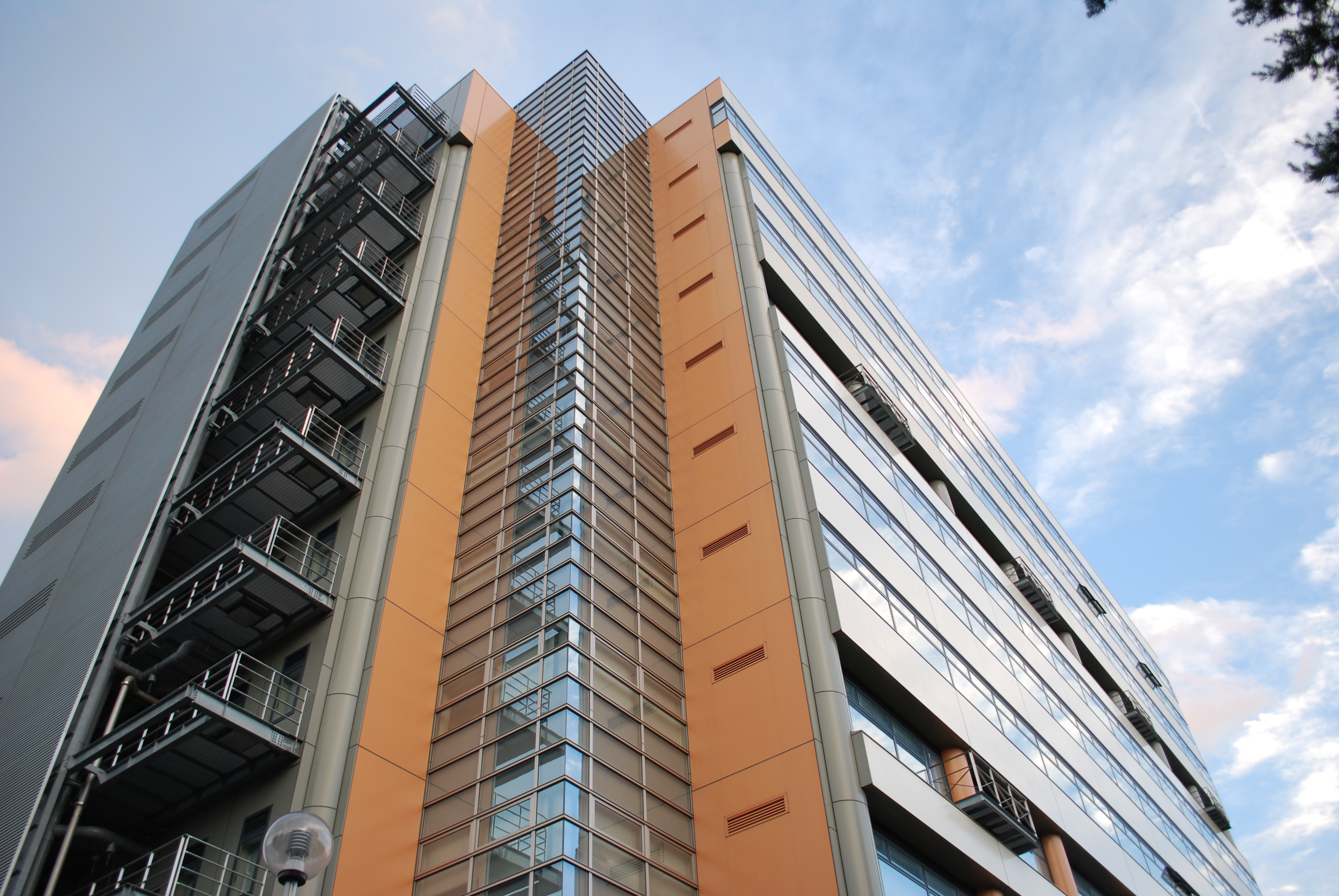 Graduate School Of Engineering Research Complex Lab